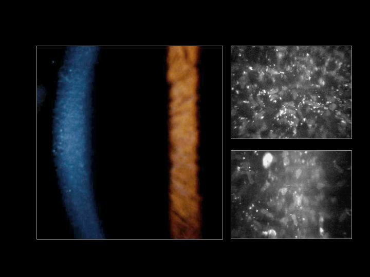 Fleck corneal dystrophy. Appearance of the cornea by slit-lamp biomicroscopy (left image) and by confocal microscopy (right image) (Courtesy Dr. Charles N. McGhee). Klintworth Orphanet Journal of Rare Diseases 2009 4:7